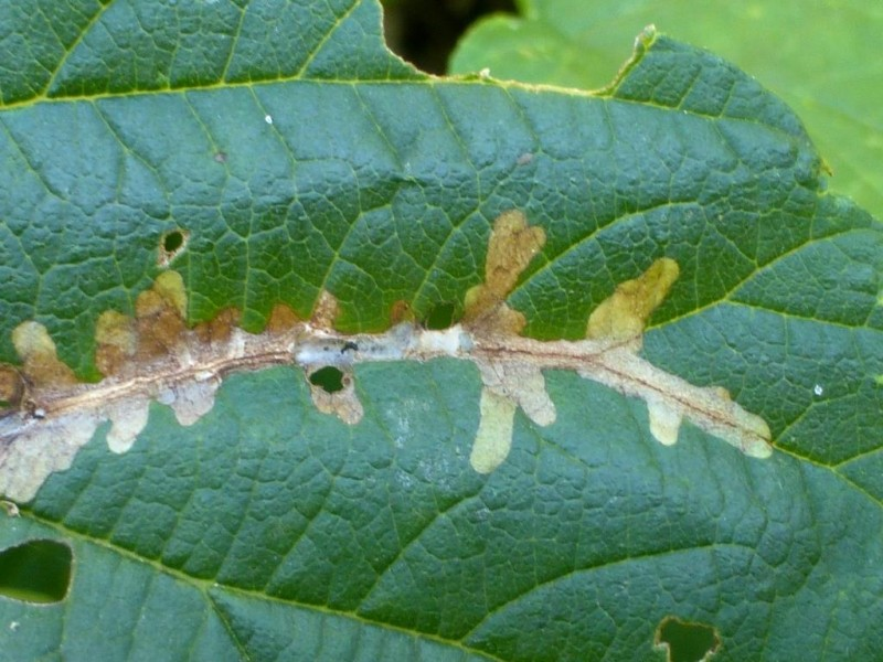 Cosmopterix zieglerella (Cosmopterigidae) - (leaf mine), Burgum, the Netherlands